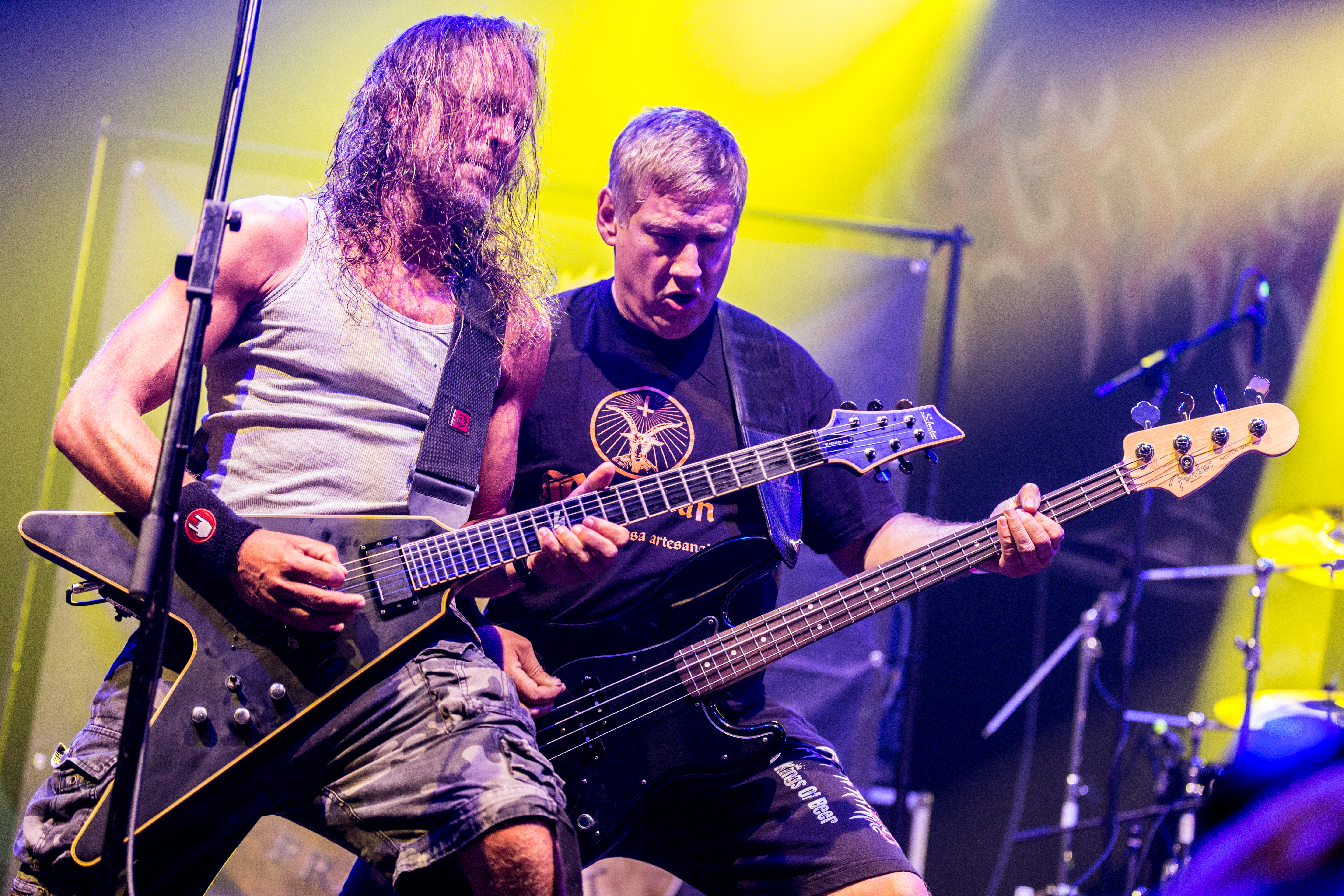 The German thrash metal band Tankard at the Metal Frenzy 2017 in Gardelegen/Germany.